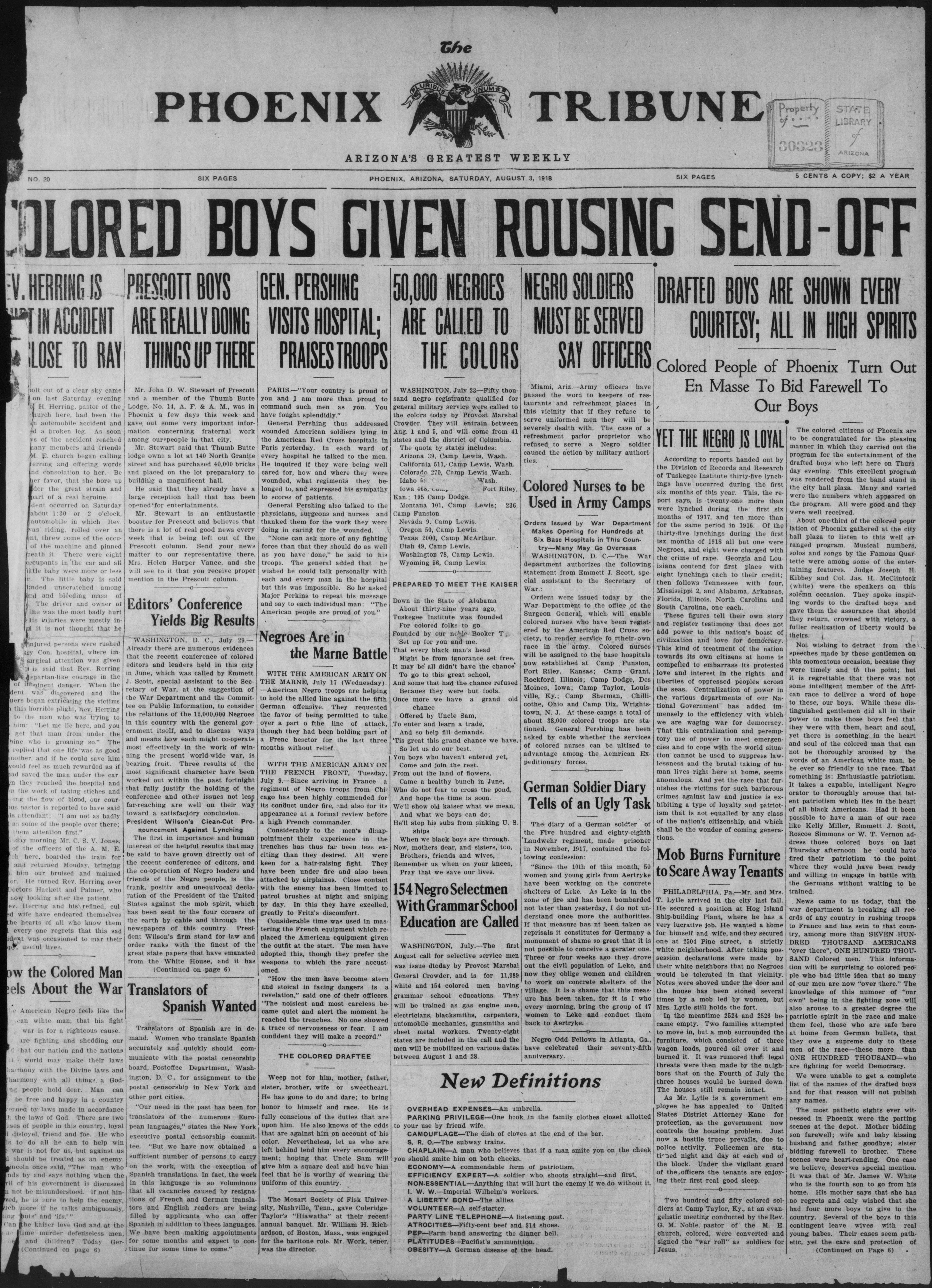 Front page of the August 3, 1918 issue of the, the first African American newspaper in Arizona, filled with news of World War I. Volume 1, number 20. From the Arizona Memory Project.